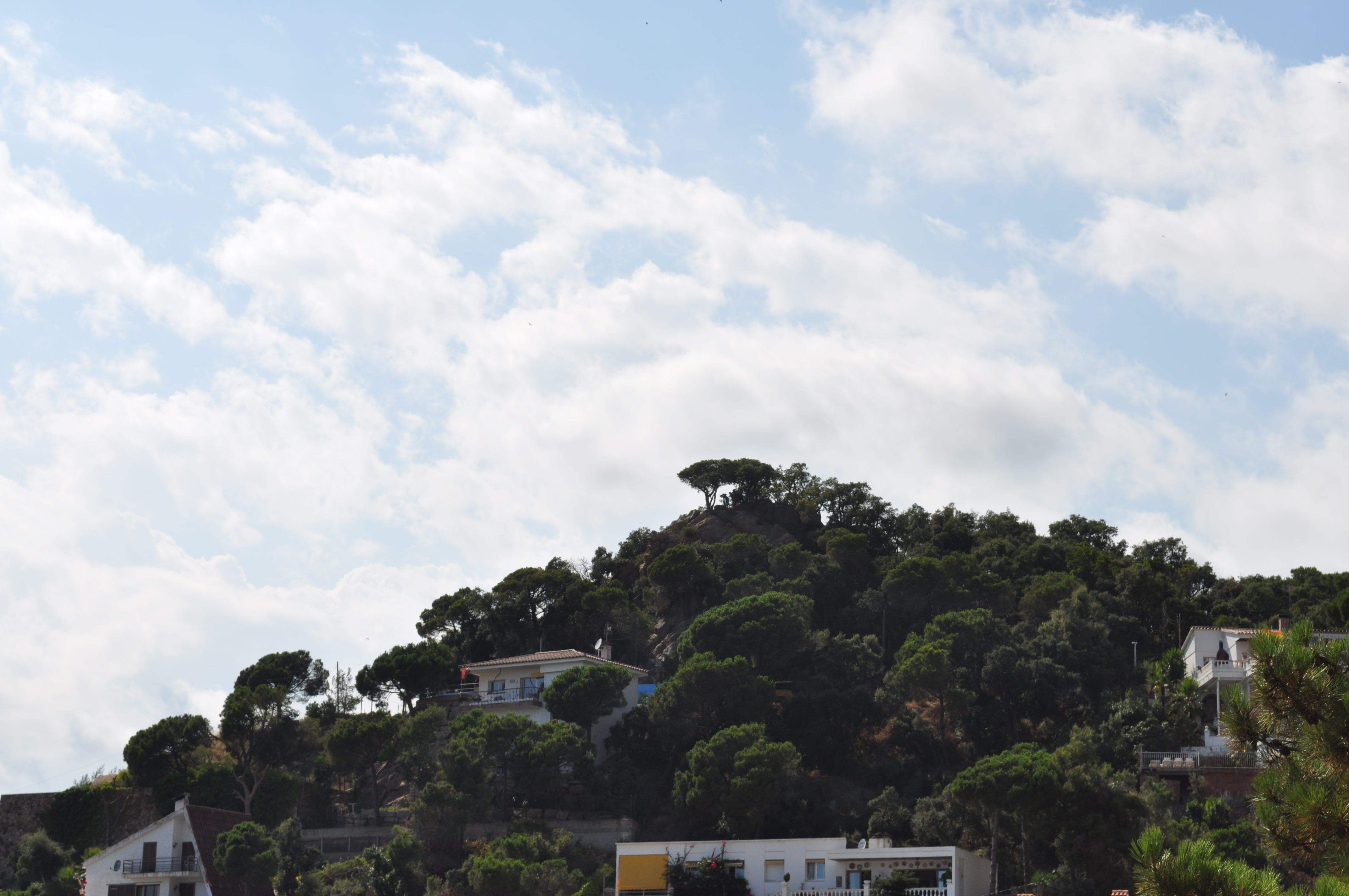 Puig de Castellet, hill near Lloret de Mar